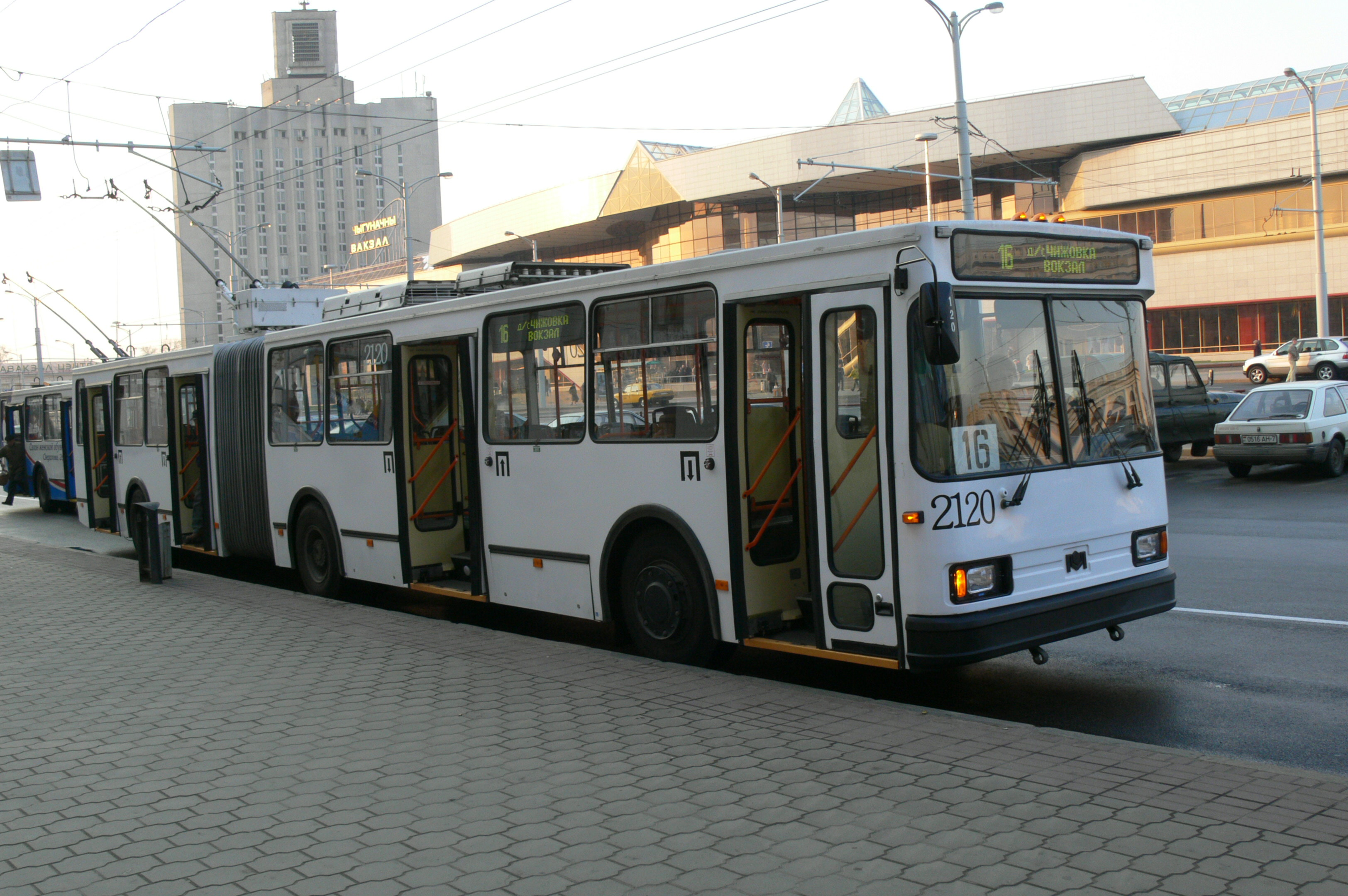 Buelorussian trolleybus AKCM-213 in Minsk